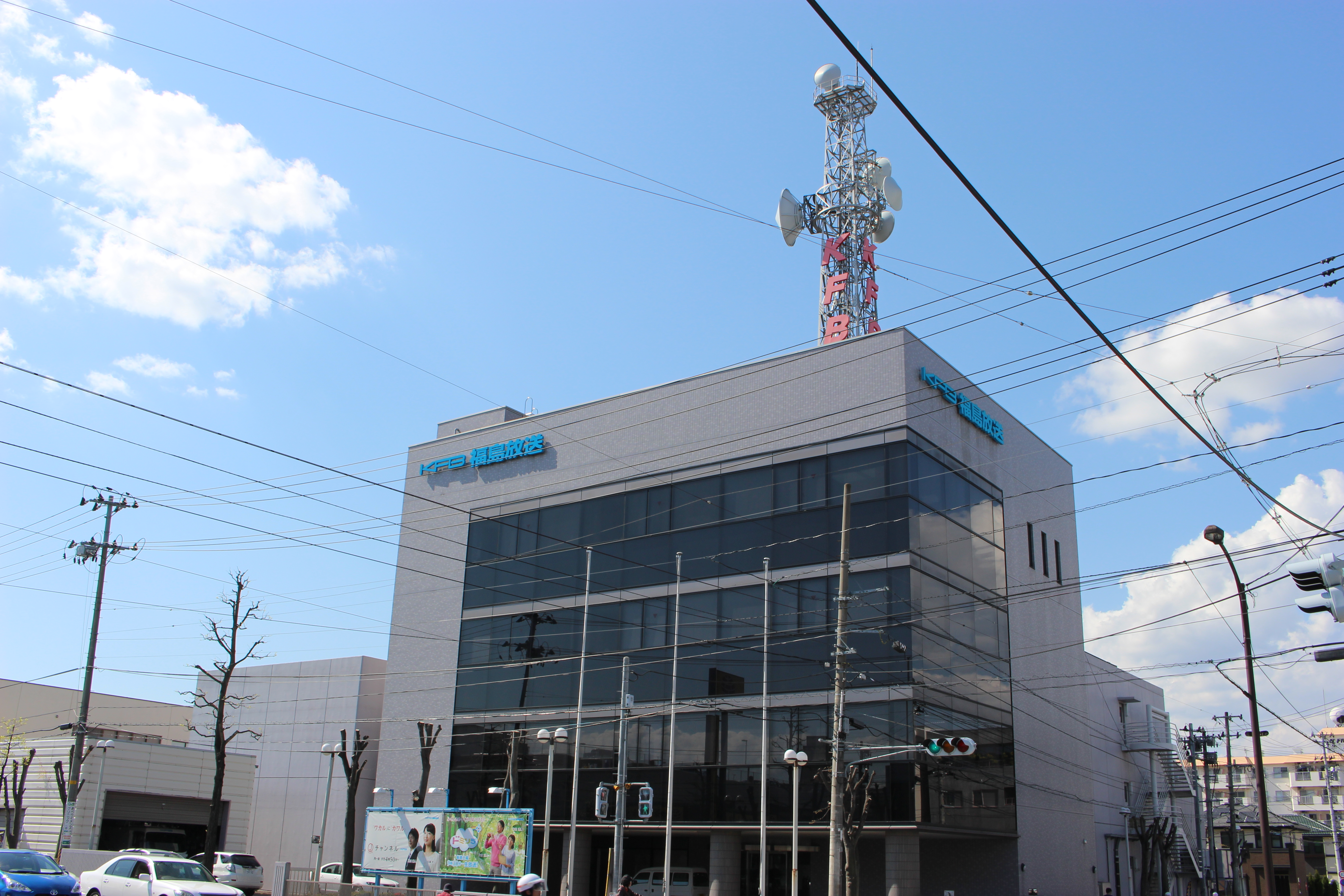 福島放送本社（郡山市）